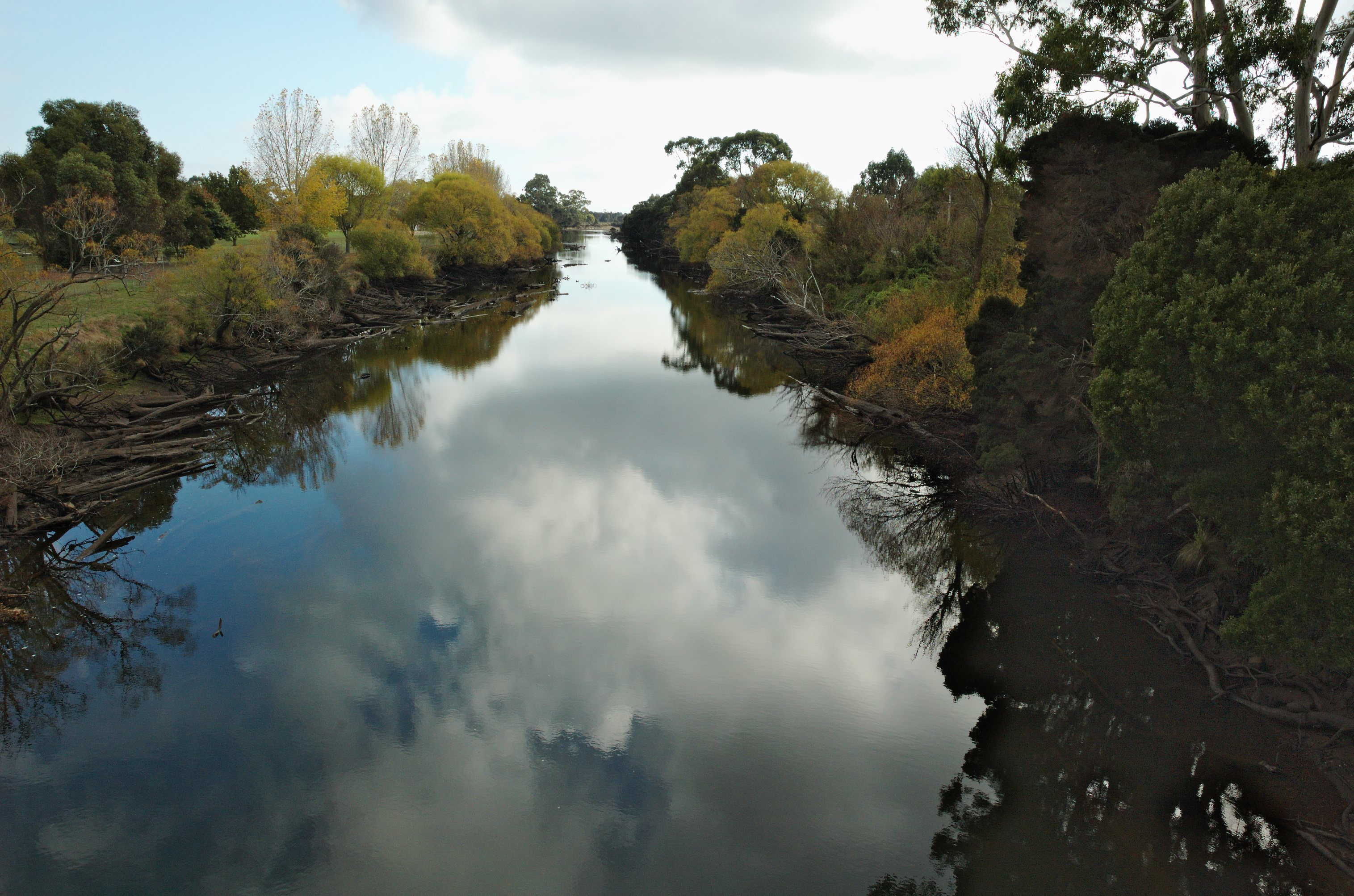 The Forth River, Tasmania, looking north from the Forth Rd bridge at Forth.